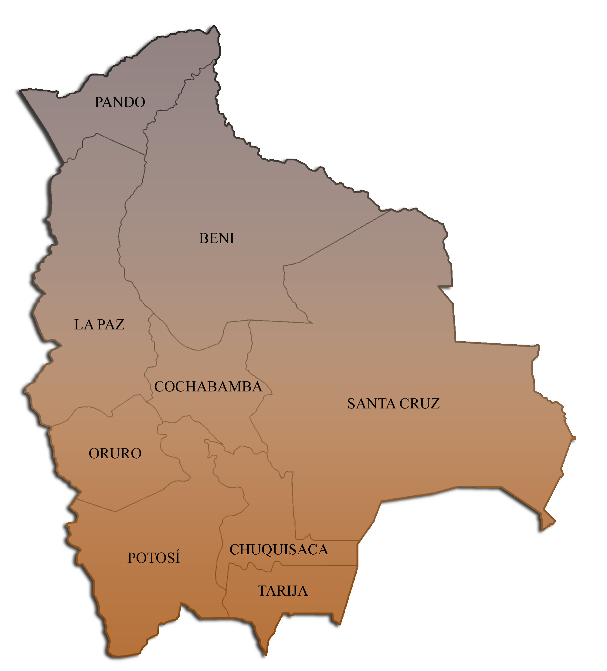 Political map of Bolivia—the major administrative political divisions of Bolivia are "Departments" ("Departamentos" in Spanish).